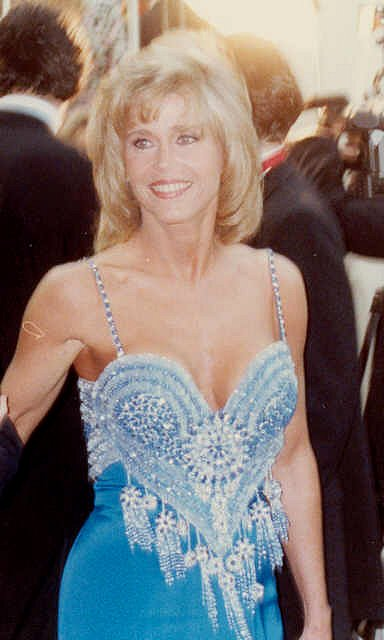 Jane Fonda on the red carpet at the 62nd Annual Academy Awards, 3/26/90